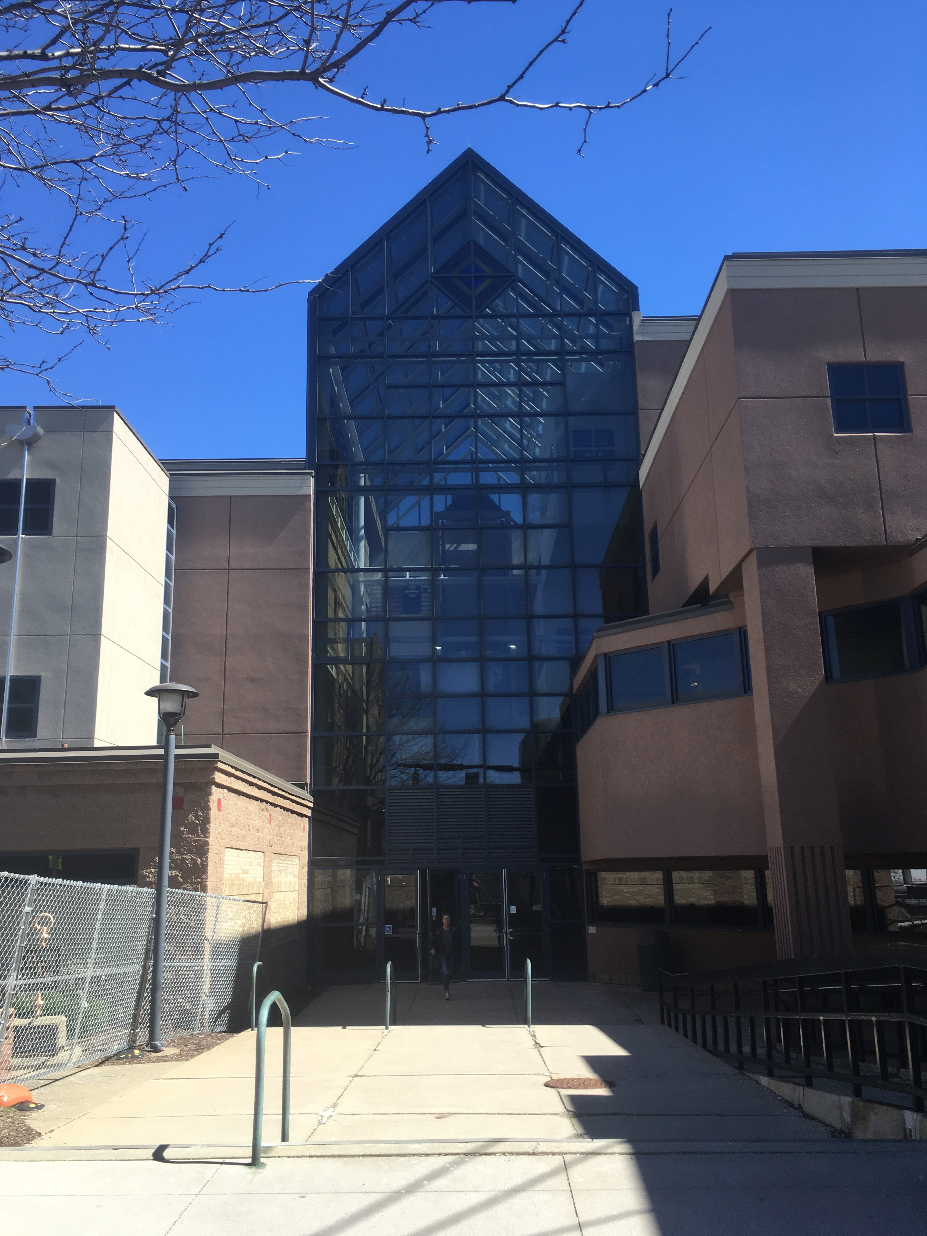 UAkron Business Admin